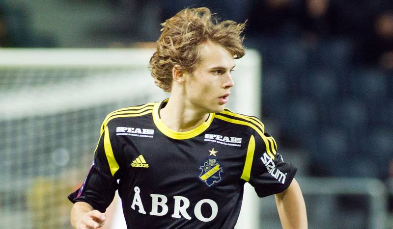 afssdf